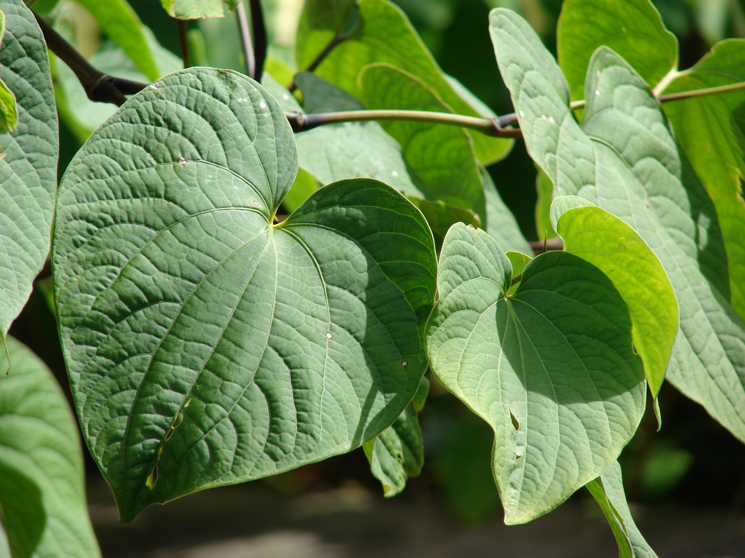 Piper methysticum (leaves). Location: Oahu, Hoomaluhia Botanical Garden